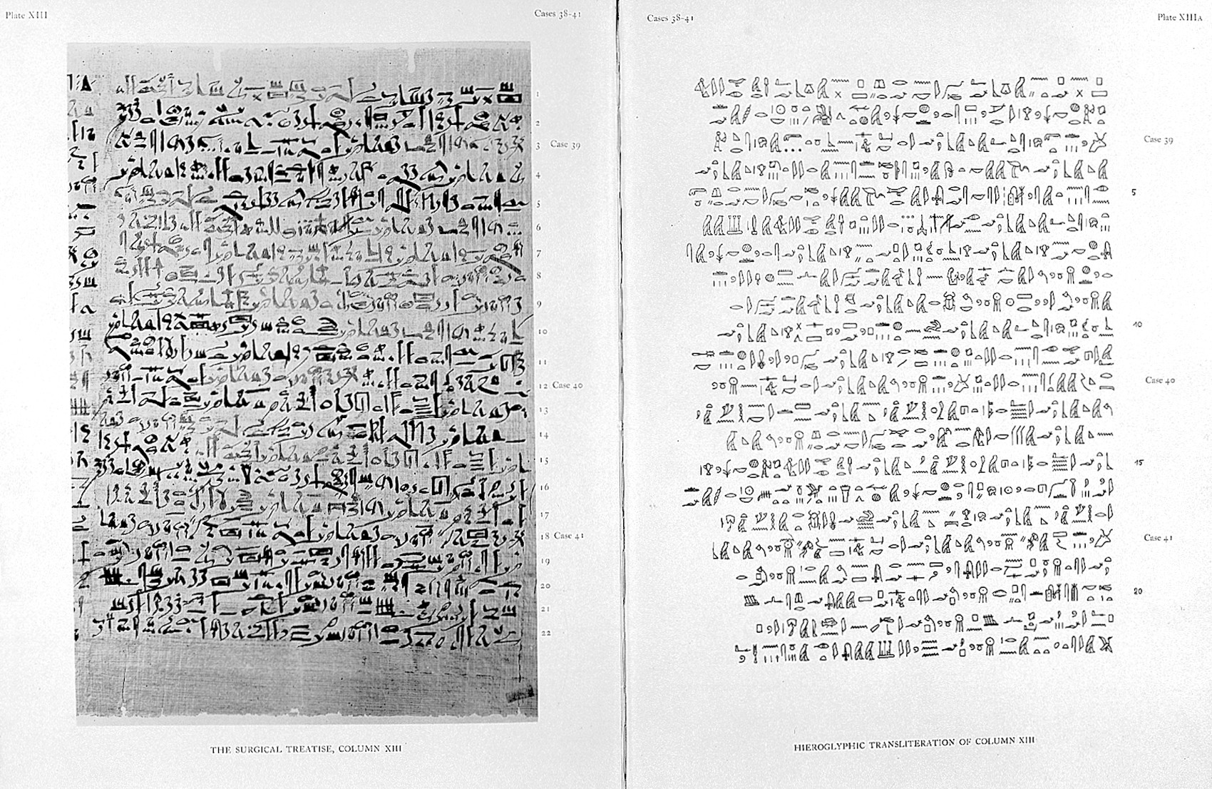 Edwin Smith Papyrus Recto Column 13 (Cases 38-41) Original papyrus on left, Hieroglyphic transliterations on right General Collections Keywords: medicine, egyptian; Edwin Smith